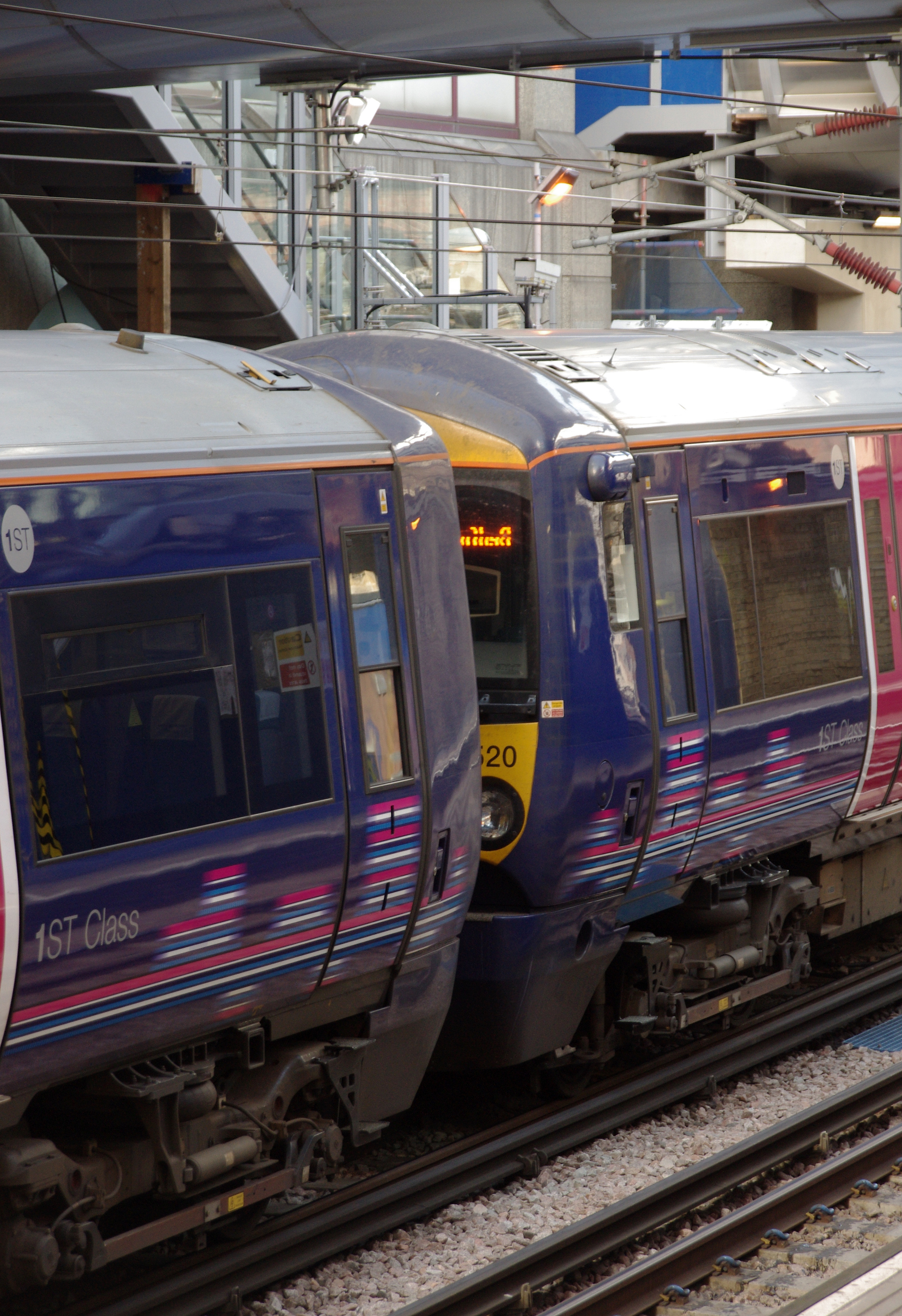 First Capital Connect "Electrostar" EMUs 377521 and 377503 at Farringdon with a northbound Thameslink service.